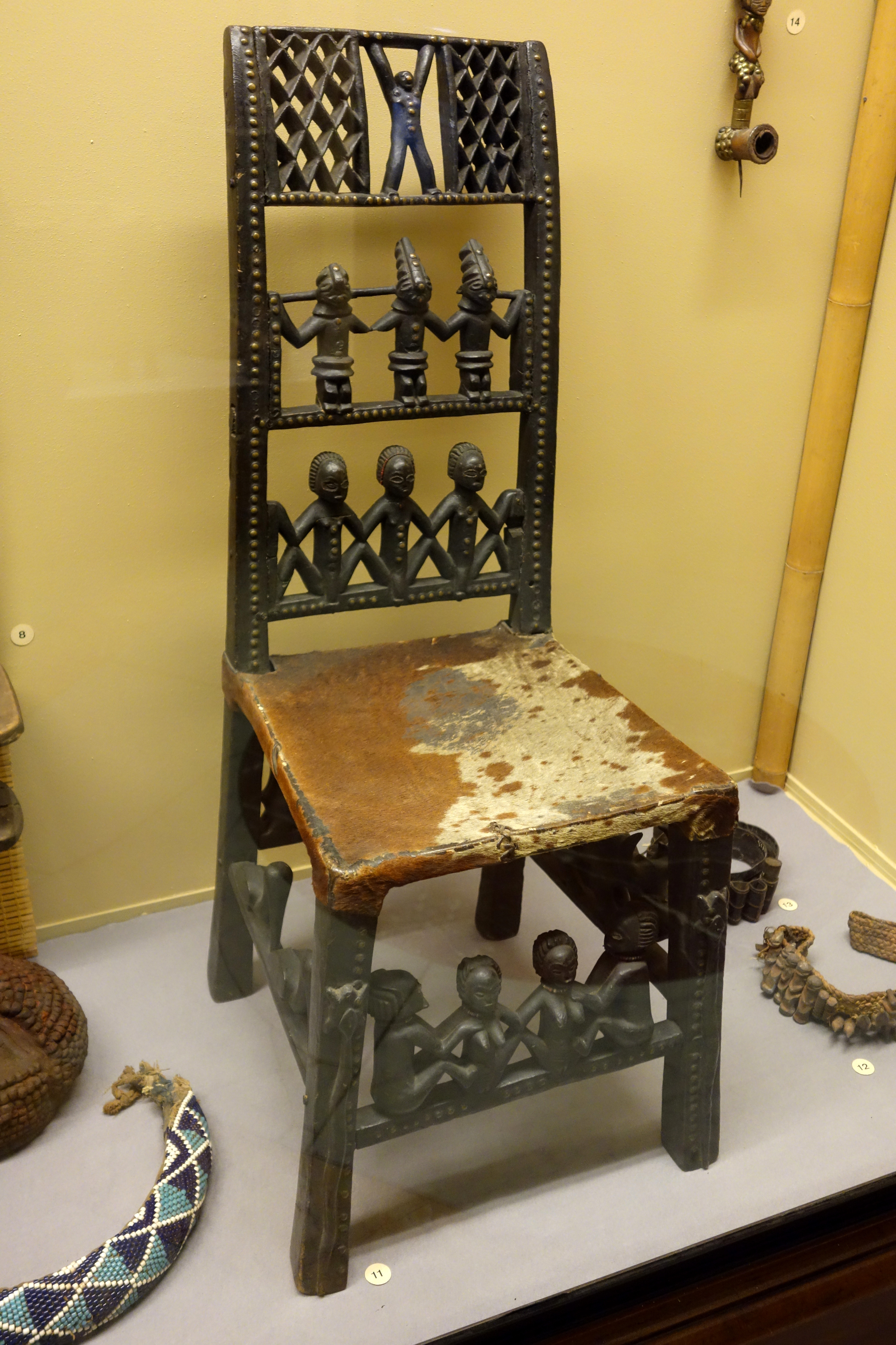 Exhibit in the Royal Museum for Central Africa, Tervuren, Belgium. This object is old enough so that it is in the public domain.